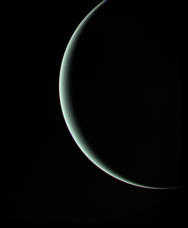 Original Caption Released with Image: This view of Uranus was recorded by Voyager 2 on Jan 25, 1986, as the spacecraft left the planet behind and set forth on the cruise to Neptune Voyager was 1 million kilometers (about 600,000 miles) from Uranus when it acquired this wide-angle view. The picture -- a color composite of blue, green and orange frames -- has a resolution of 140 km (90 mi). The thin crescent of Uranus is seen here at an angle of 153 degrees between the spacecraft, the planet and the Sun. Even at this extreme angle, Uranus retains the pale blue-green color seen by ground-based astronomers and recorded by Voyager during its historic encounter. This color results from the presence of methane in Uranus' atmosphere; the gas absorbs red wavelengths of light, leaving the predominant hue seen here. The tendency for the crescent to become white at the extreme edge is caused by the presence of a high-altitude haze Voyager 2 -- having encountered Jupiter in 1979, Saturn in 1981 and Uranus in 1986 -- will proceed on its journey to Neptune. Closest approach is scheduled for Aug 24, 1989. The Voyager project is managed for NASA by the Jet Propulsion Laboratory.